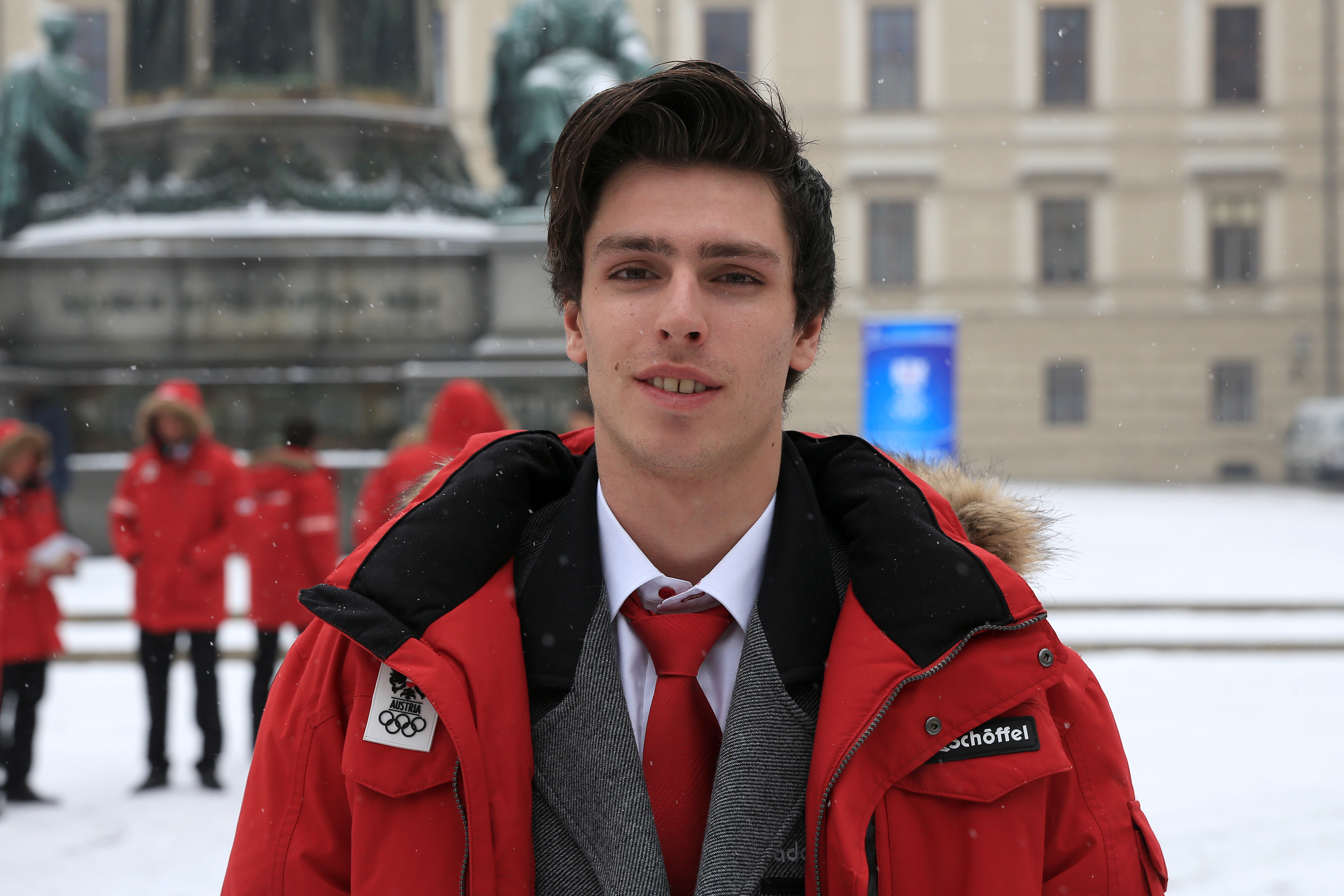 Athletes of the Austrian team for the 2014 Winter Olympics - snowboard/slopestyle: Adrian Krainer before the reception by Federal President Heinz Fischer at Hofburg Palace in Vienna, Austria.